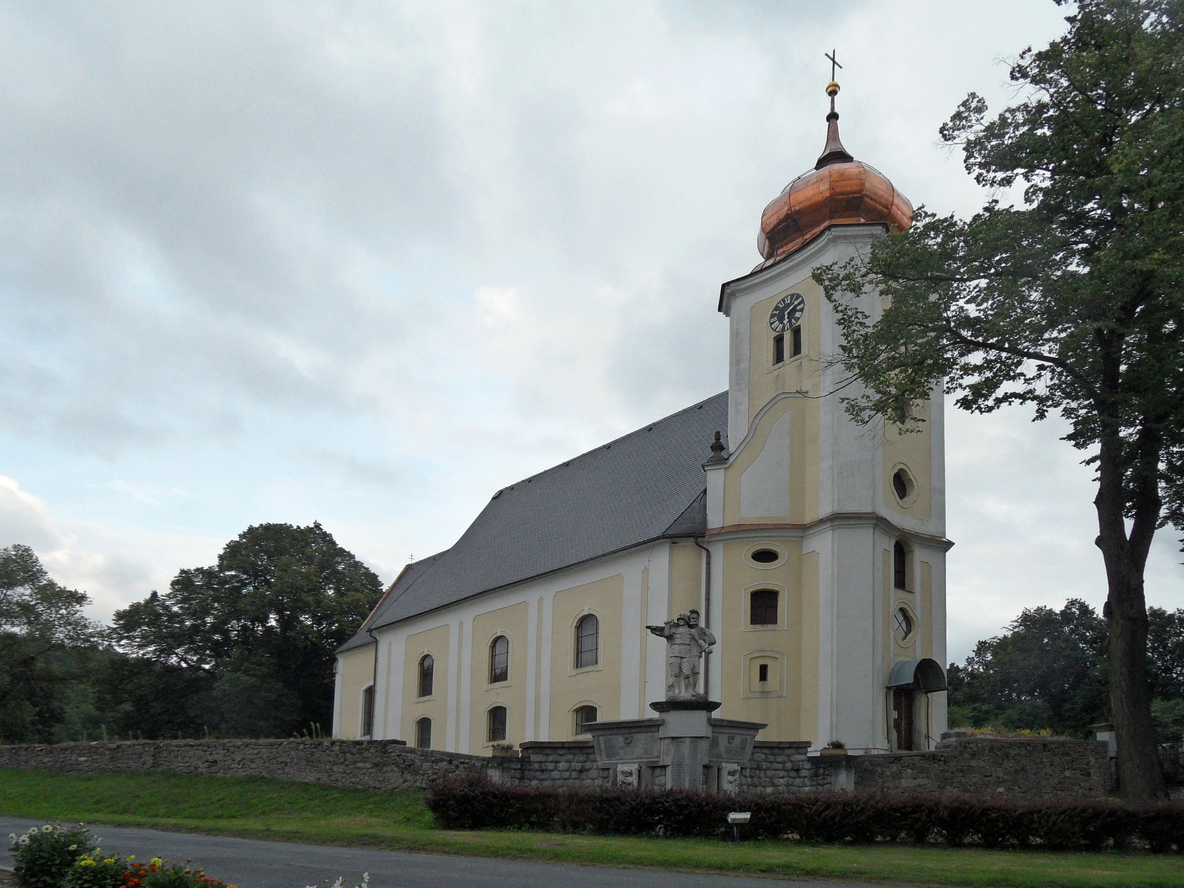 Stará Červená Voda: Church of Corpus Cristi: Overview. Jeseník District, the Czech Republic.